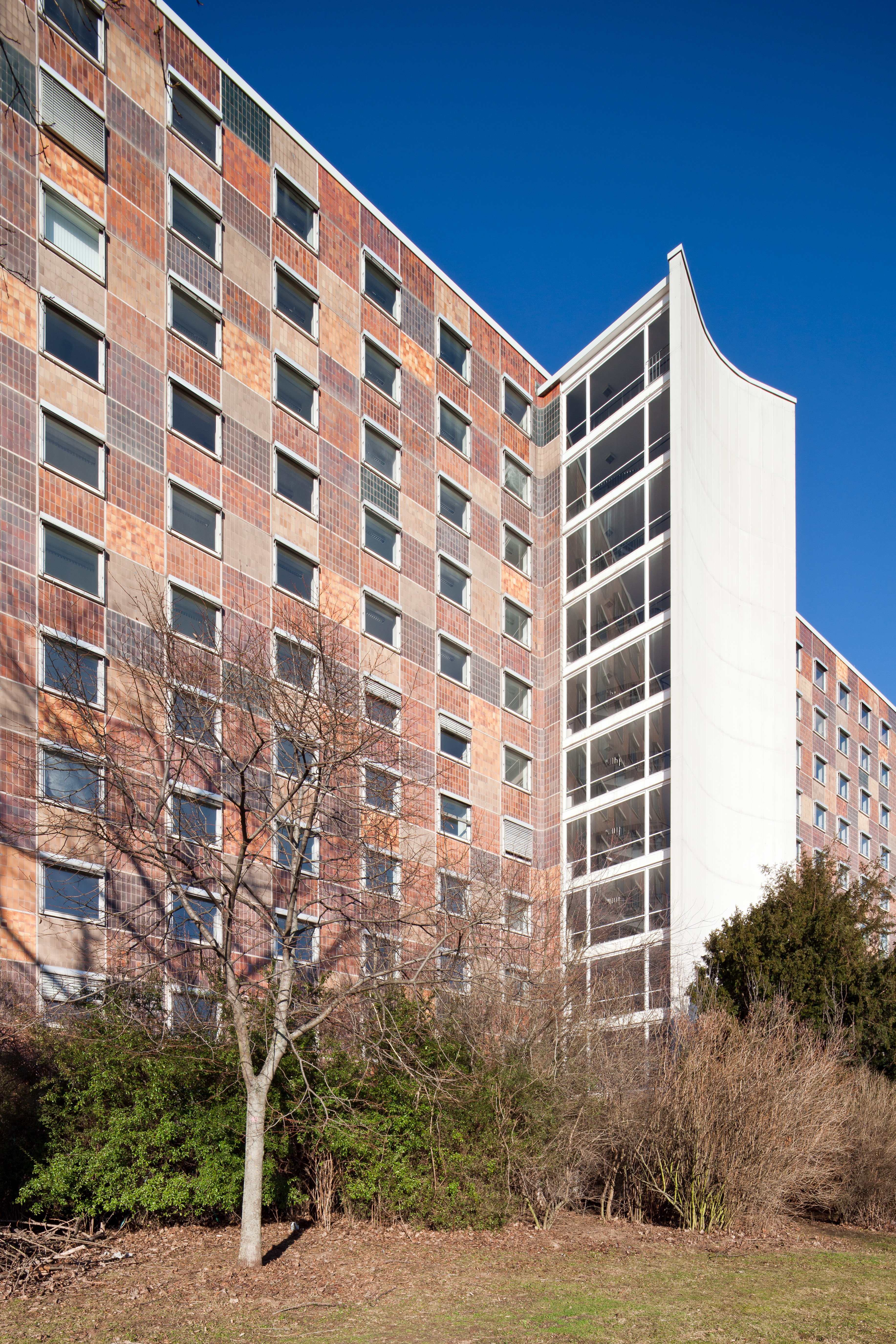 Frankfurt on the Main: Former Oberfinanzdirektion (Upper Finance Directorate), southwestern stairwell as seen from the southwest